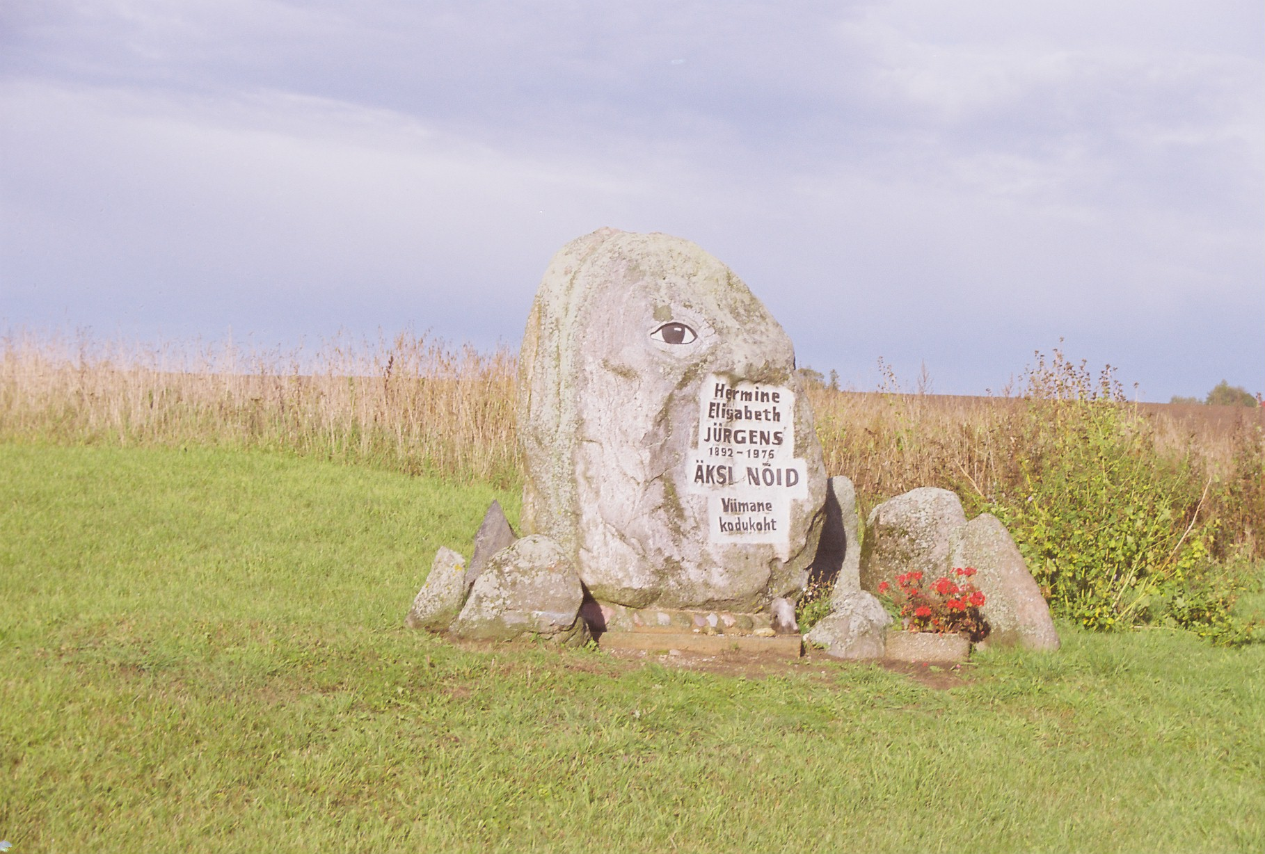 monument to witch of Äksi, Hermine Elisabeth Jürgens